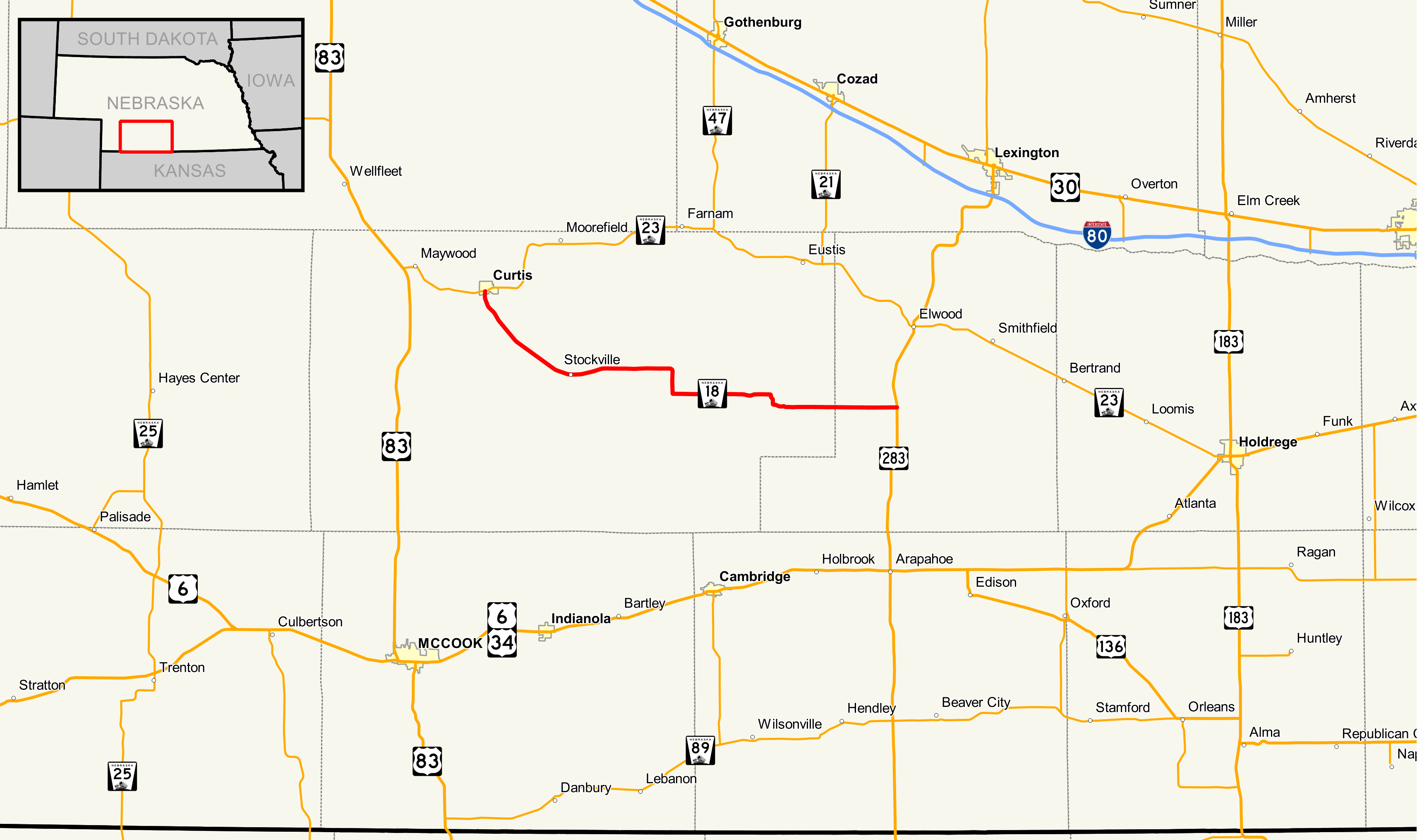 Map of Nebraska Highway 18 Data Sources: Nebraska Highways - - Dec 2016 Nebraska County Boundaries - - Dec 2016 Nebraska City Boundaries - - Dec 2016 This PNG graphic was created with QGIS